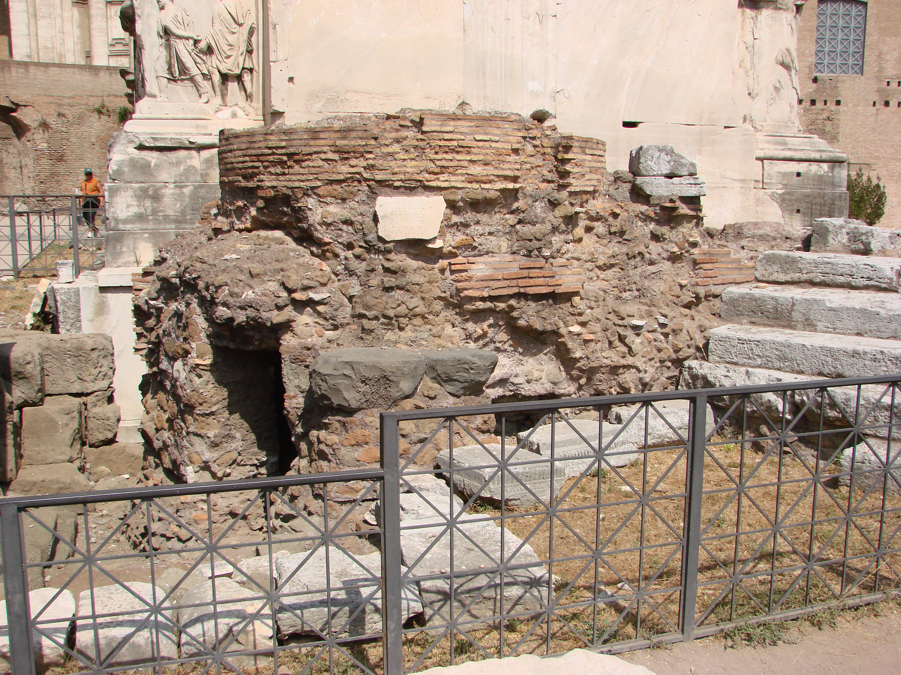 Umbilicus urbis Romae: the navel of Rome. In the Roman Forum near the Septimius Severus Arch.